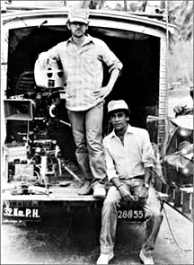 Director Steven Spielberg and Production supervisor Chandran Rutnam on location in Sri Lanka during the filming of Indiana Jones and the Temple of Doom starring Harrison Ford and Kate Capshaw, a Lucasfilm UK production and a Paramount Pictures release.